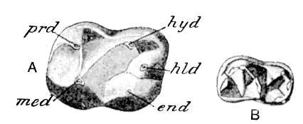 Fig. 38.—Molar teeth of A, Phenacodus, and B, the Creodont Palaeonictis. End, endoconid; hld, hypoconulid; hyd, hypoconid; med, metaconid; prd, protoconid. (After Osborn and Wortman.)